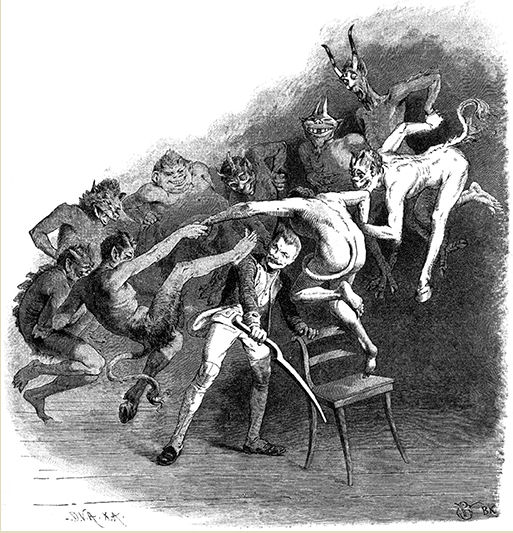 Illustration for 'Brother Lustig' by Philipp Grot Johann (1841-1892) for 'Grimm's Fairy Tales' 1893